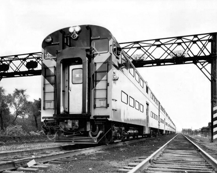 Photo of a Chicago and North Western commuter train cab car. Trains equipped like this can be driven from either end.